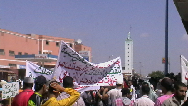 Protests of Sidi Smail (Morocco) with mosque in the background Walon: Metingue a Sidi Smayil avou l' moskêye e l' erî-plan